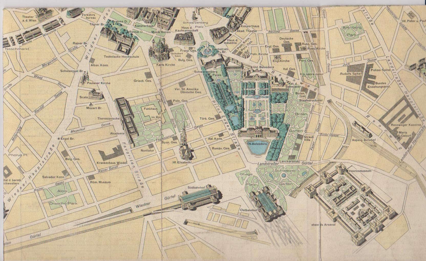 Vienna's Südbahnhof (South Railway Station) and Ostbahnhof (East Railway Station) before World War II on a promotional city map showing important buildings in small drawings.